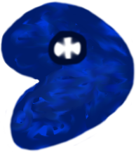 A perverted version of the Gentoo logo made with the GIMP.